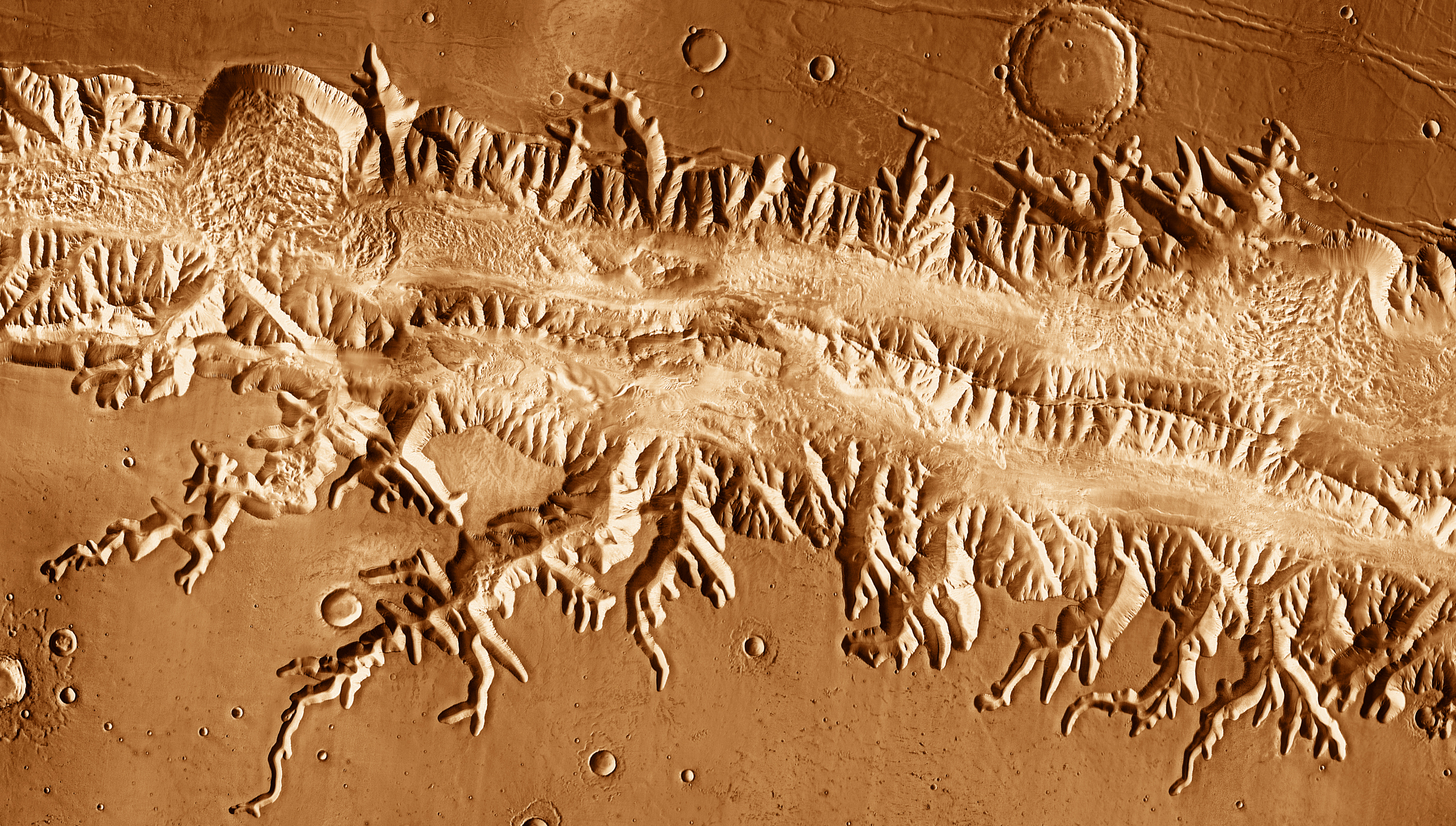 2001 Mars Odyssey THEMIS infrared image mosaic of Ius Chasma, colored to resemble the actual color of Mars. With a length great enough to stretch from New York City to Los Angeles, Valles Marineris is the Grand Canyon of Mars. Scientists think the canyons cutting into the rim developed as subsurface water escaped and the ground collapsed - a process called "sapping." The side canyons extending from the south rim in this scene are termed the Louros Valles. The original NASA image has been adjusted in hue, saturation and resolution.